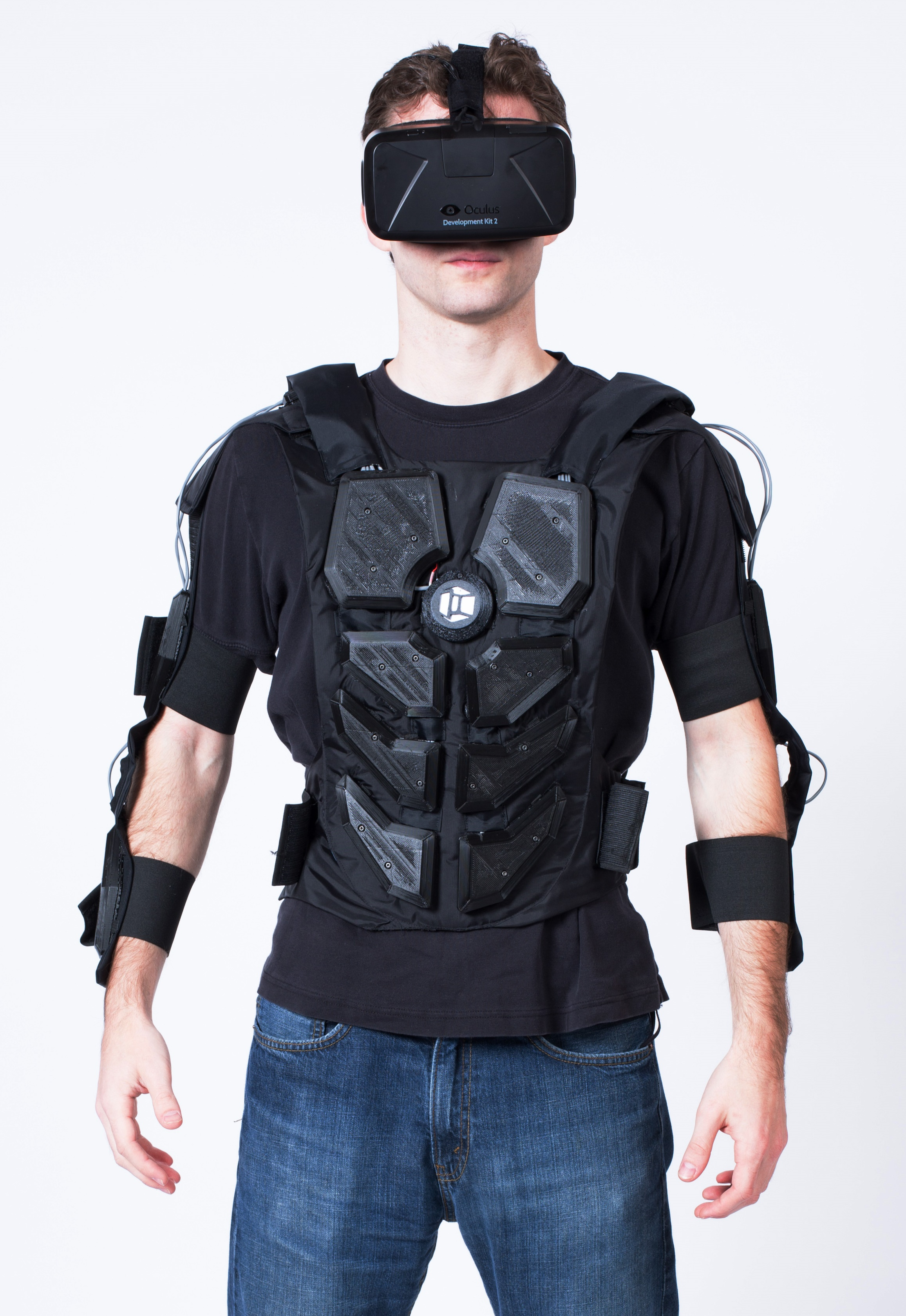 NullSpace VR Mark 2 Suit